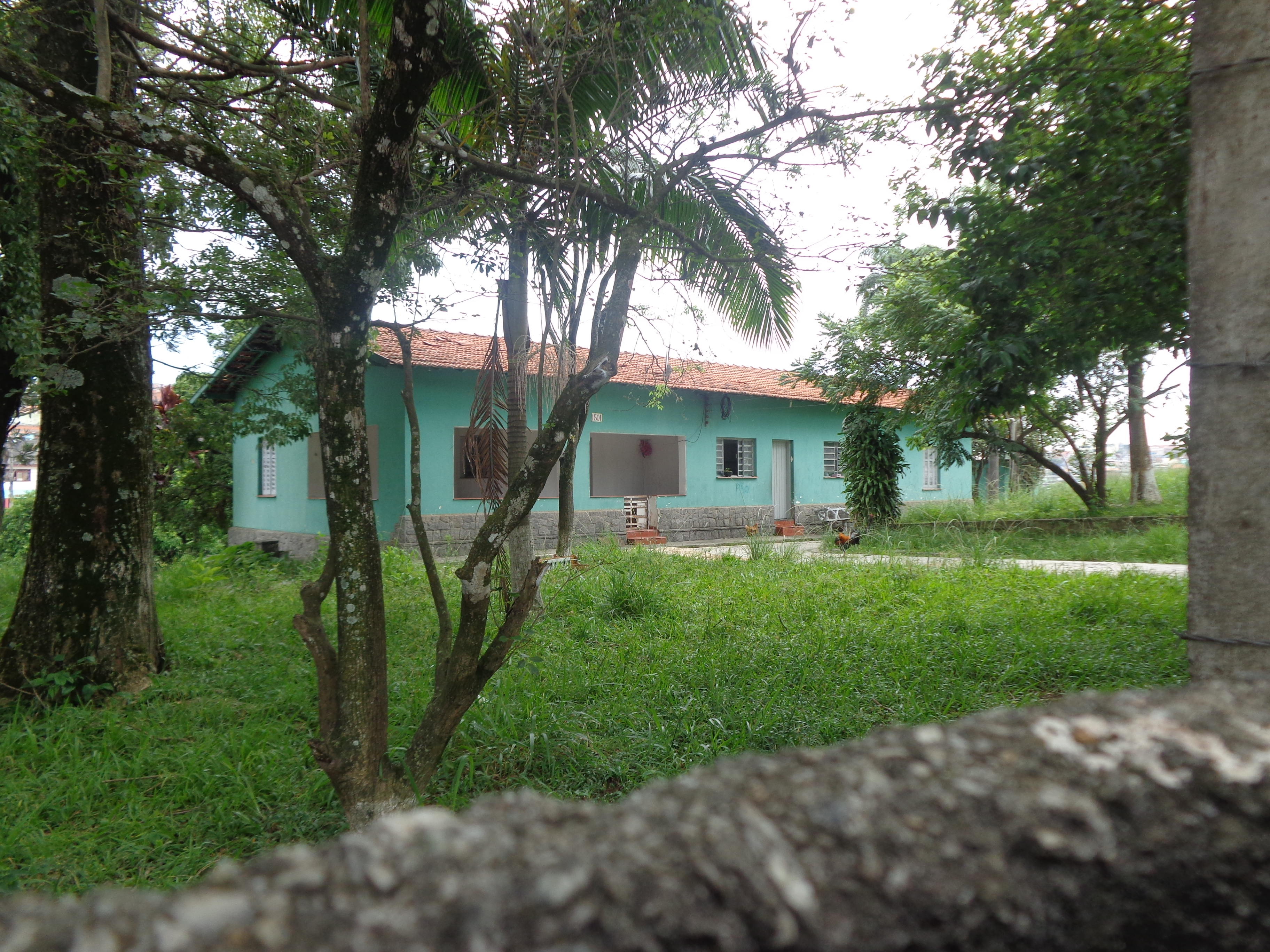 Chácara onde Provavelmente Pernoitou Dom Pedro